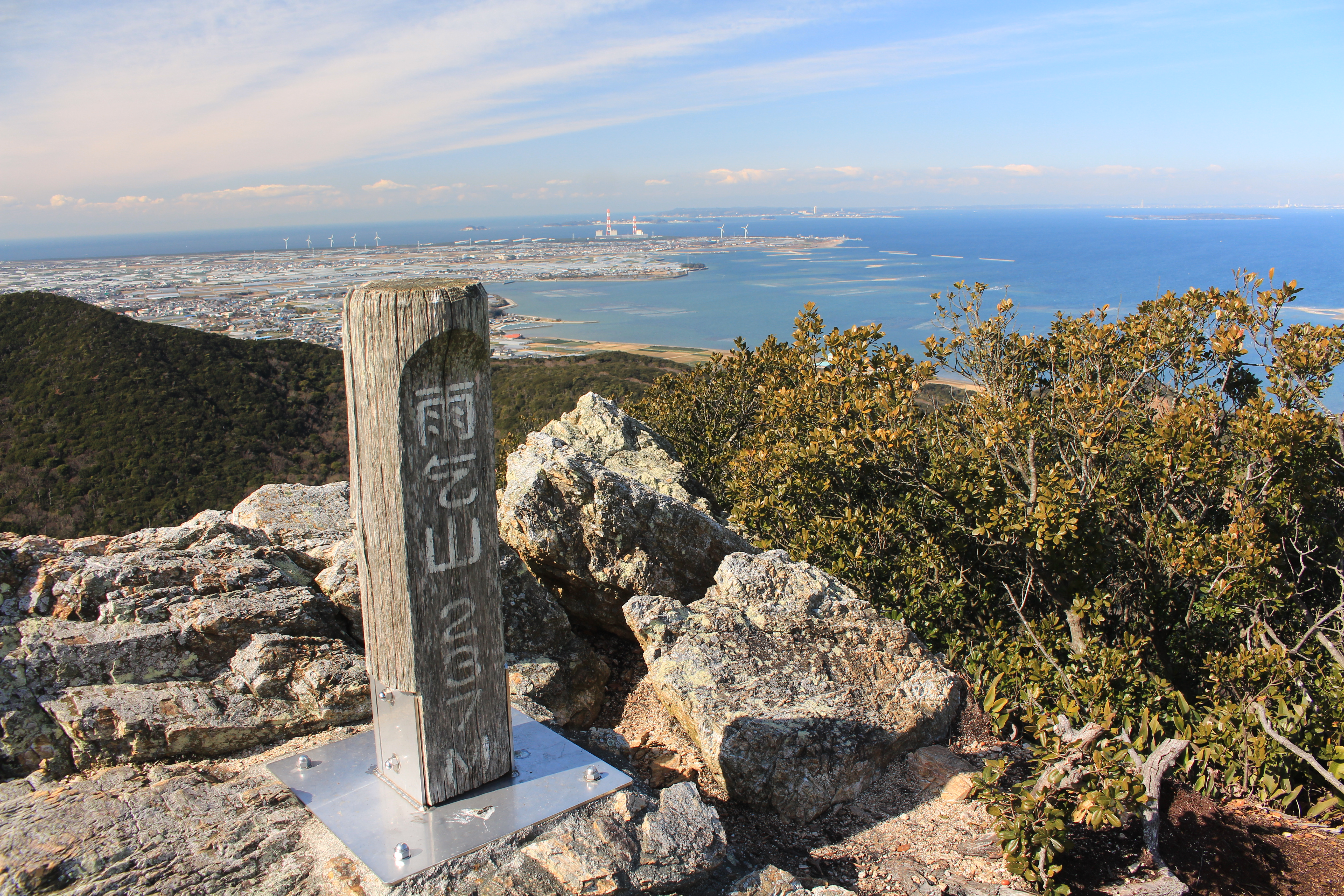 Peak of Mount Amagoi in Tahara, Aichi prefecture, Japan.